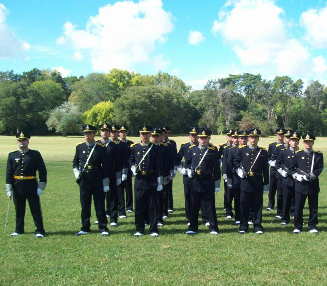 Cadets of the Buenos Pronvince Police